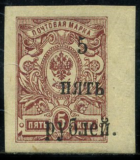 Russia Wrangel Government 1920, overprint issue. Mint. Catalogue number:Mi. 1B